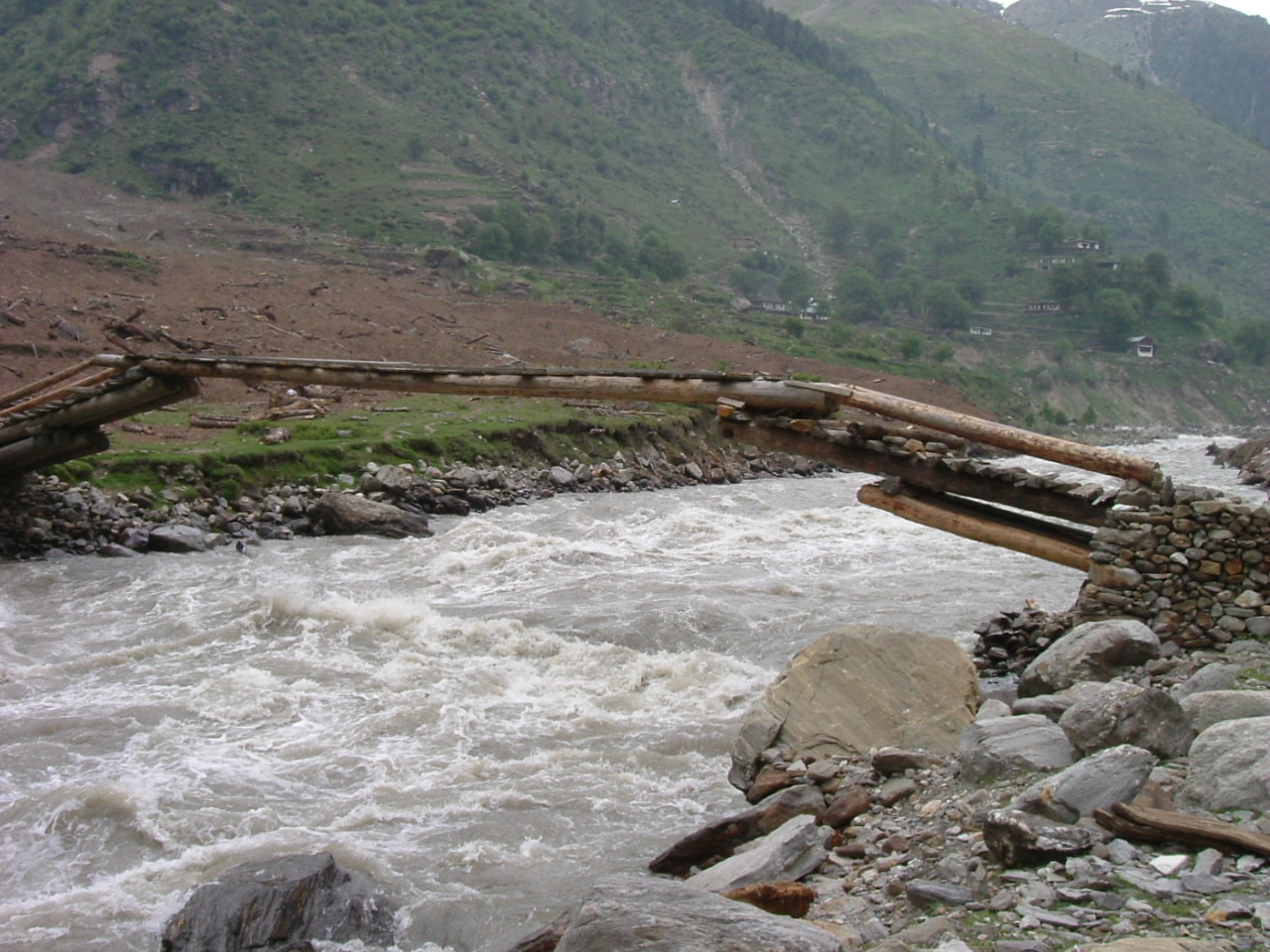 Log cantilever bridge on Kunar river, Pakistan